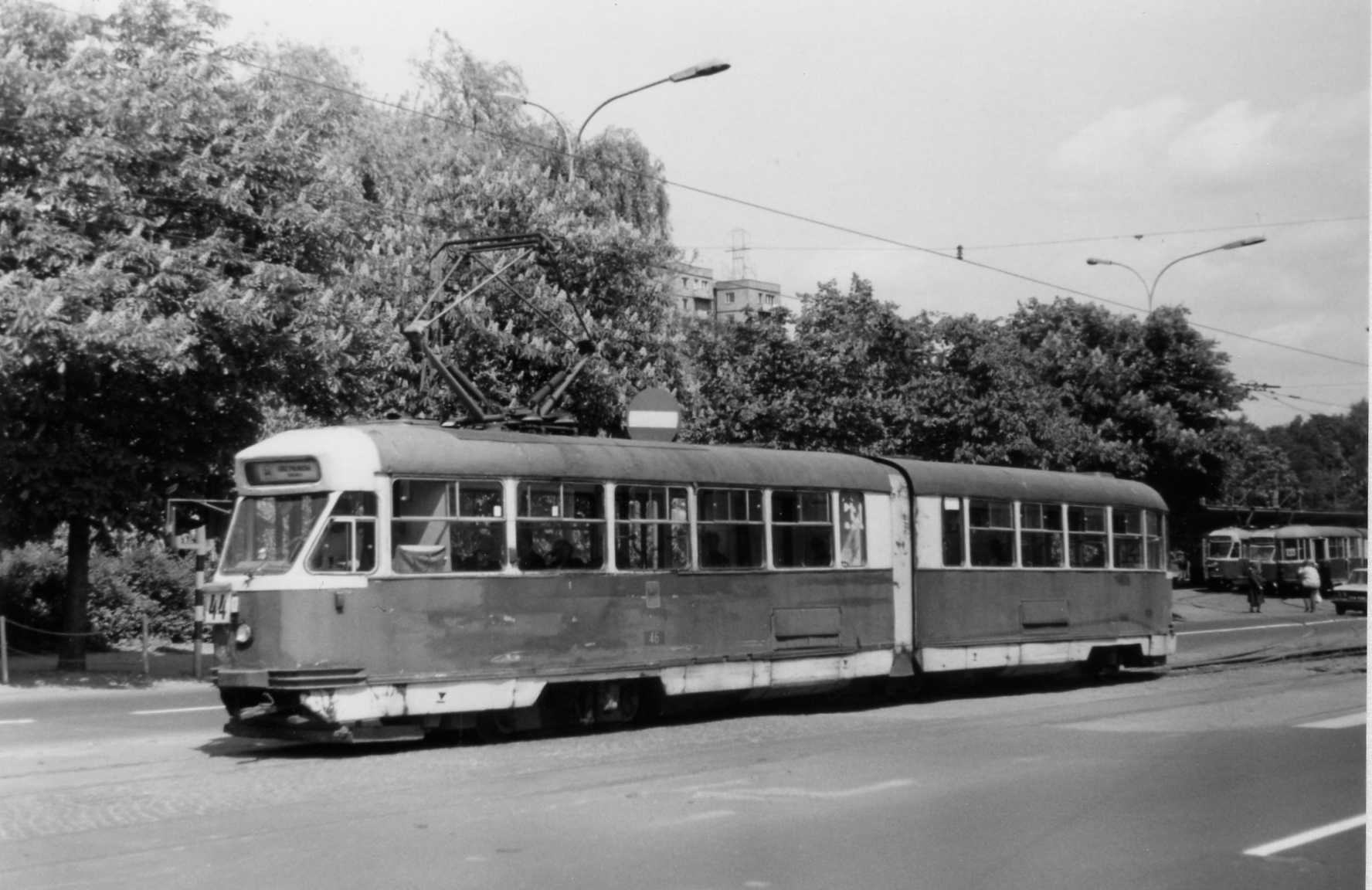 Inter-urban route no 44 to Aleksandrów Łódzki. A rather battered Konstal 102Na, no 46. These trams were from a different pool from the city routes. Linia tramwajowa nr 44 to Aleksandrów Łódzki does not seem to run any more having been discontinued between 1991 and 1995, replaced by bus nr 78. A list of current routes is found here says that by 1 April 1991, the route was cut back to Chochoła and the final closure took place at the end of 1991. There are some fine photos of the terminus here at Polocna in this site In the background of the above photo can be seen other 102Na trams at the terminus. TP Lodz took over the running of the outer routes, 43/43BIS /46 in 1994, and a list of the 803N trams taken over is here. The number 46 on the side of this tram is puzzling.